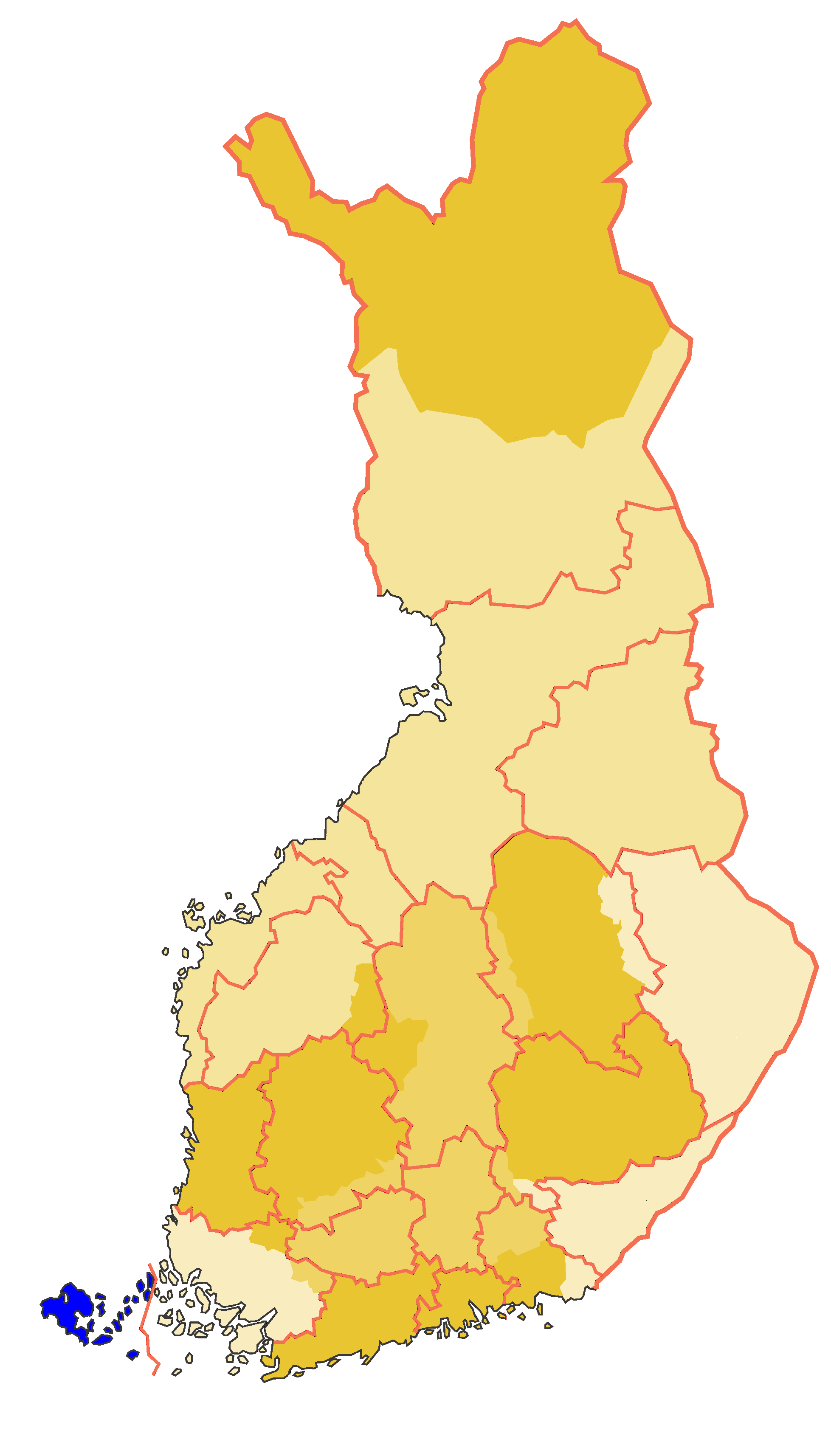 Historical province of Åland in Finland